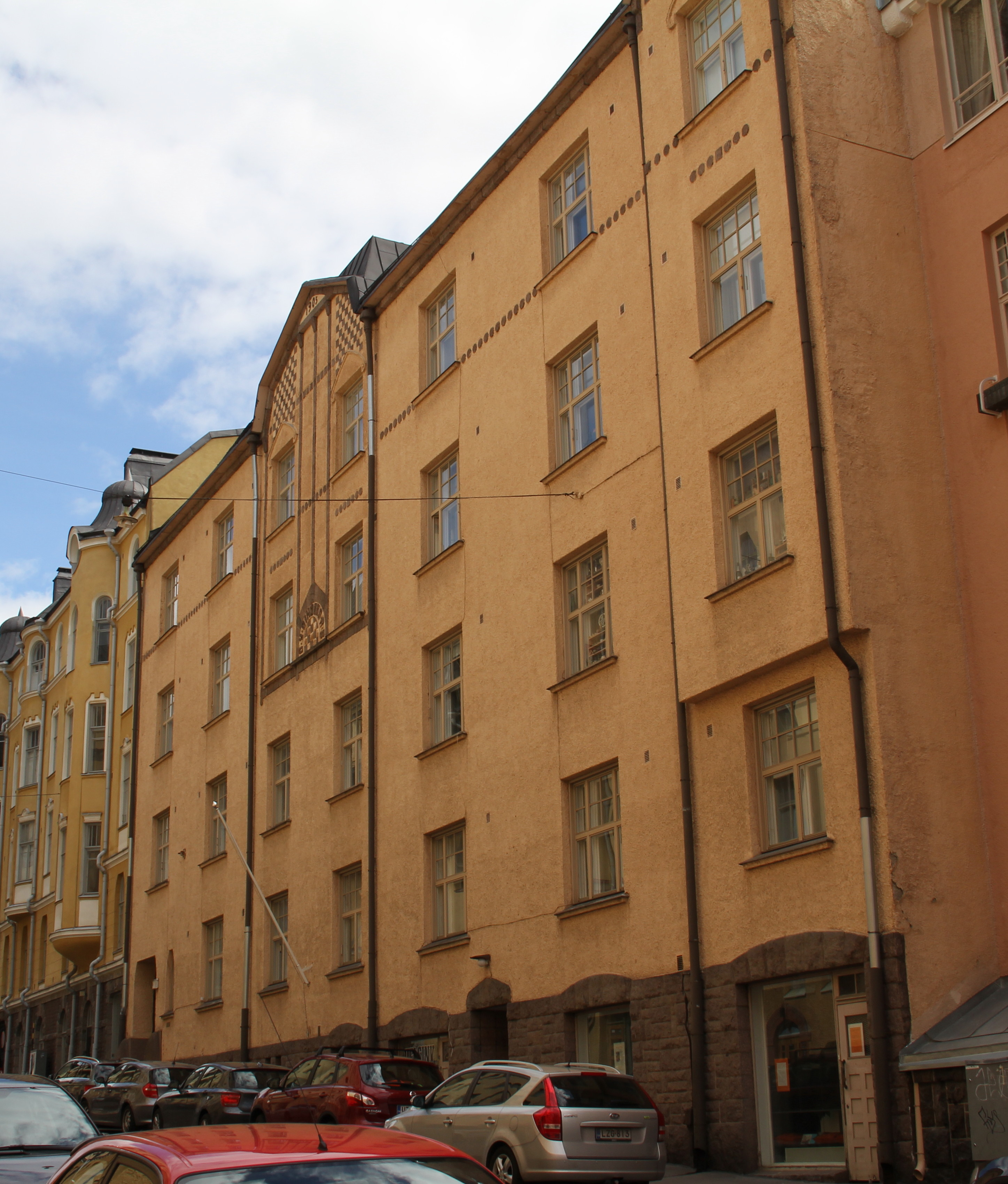 Apartment building "Oihonna", Katajanokka, Helsinki, Finland. Completed in 1905, designed by architect Albert Nyberg (1877–1952).